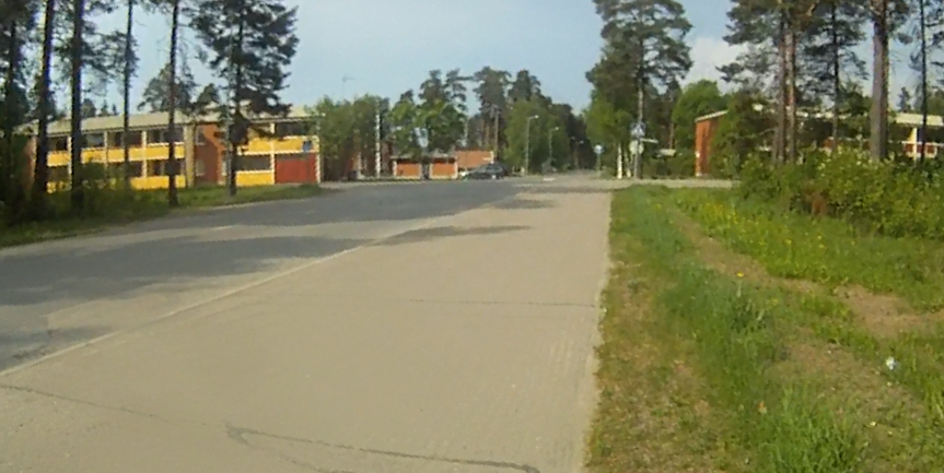 Antinkangas, Raahe, Finland